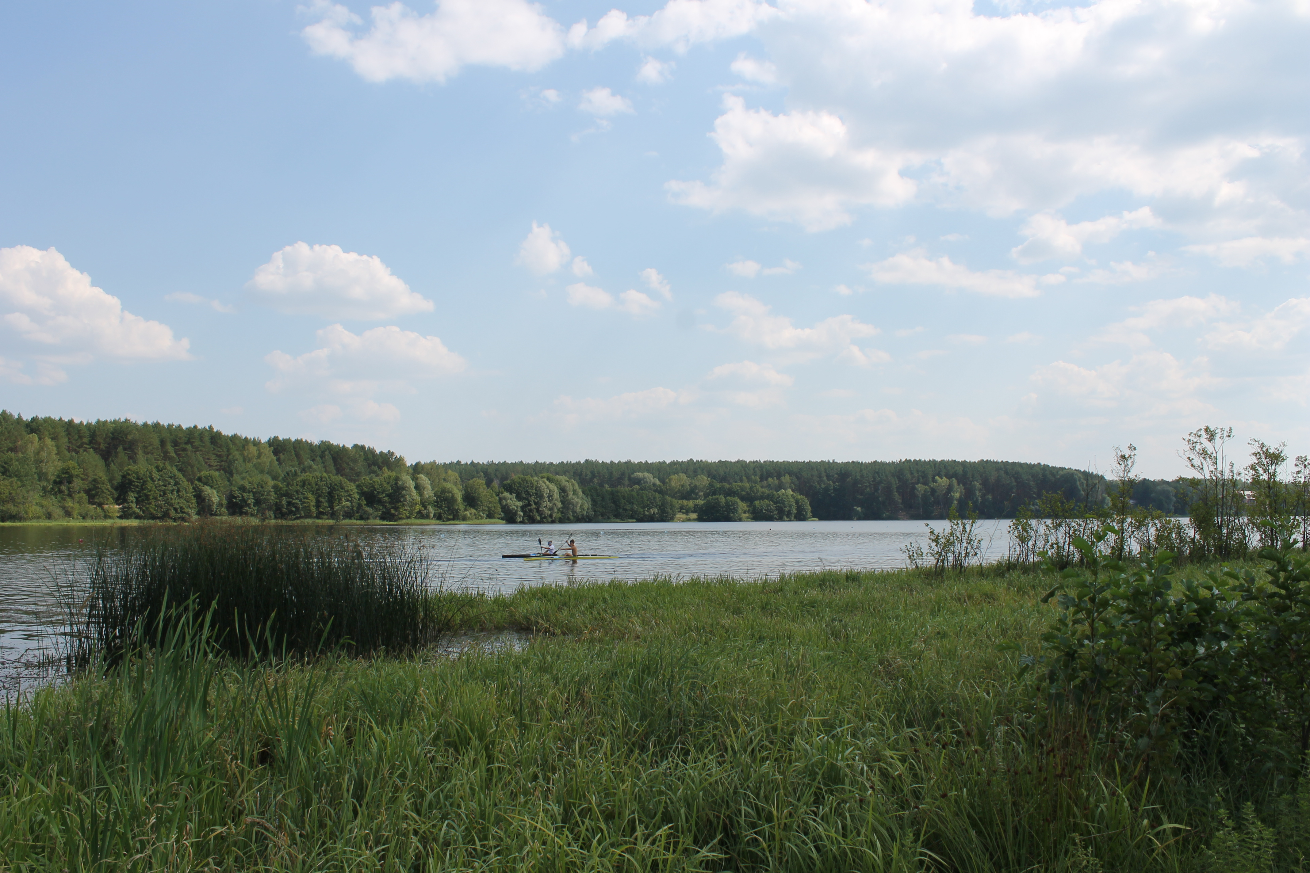 Lake Syntul (Ryazan Region)